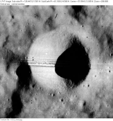 Ameghino crater image LO-I-033M LTVT